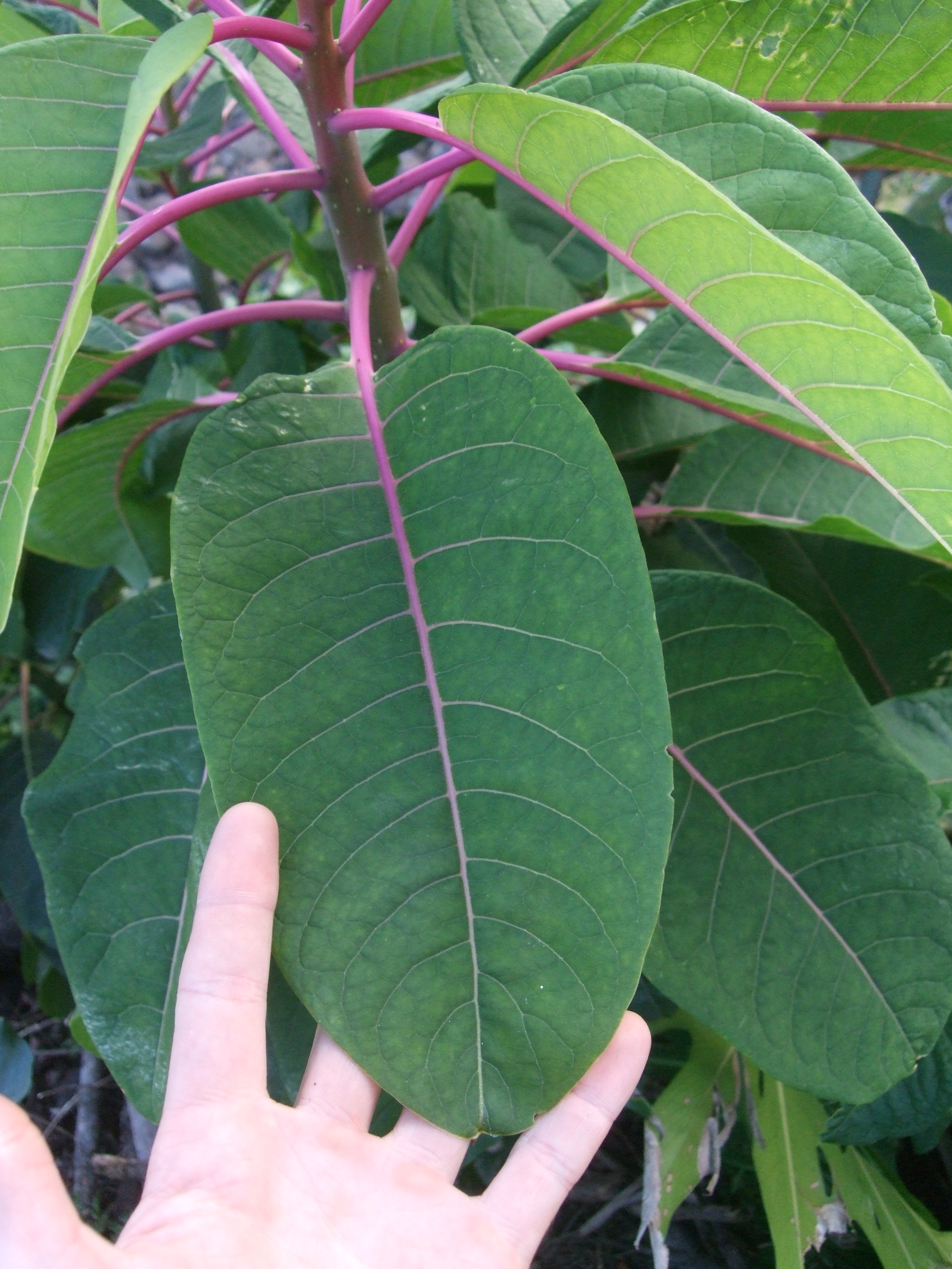 Phytolacca dioca, Ombú